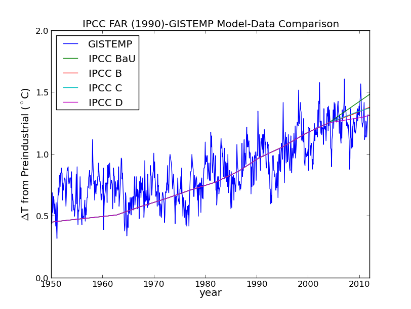 Comparison of Models from Ch. 6 of IPCC First Assessment Report (FAR) published in 1990 to current observations. Data from figure 6.11 b. Scenarios as described therein. equilibrium sensitivity used is 2.5 deg C/doubling. IPCC also ran with 4 deg C/doubling and 1.5 deg/doubling. The current best estimate is around 3 deg. C, so the 2.5 deg /doubling is the model used. Notes: BaU=Business as Usual, however it should be noted that business did not go as usual due to the implementation of the montreal protocol which substantially reduced CFC emissions. Added 0.71 to GISTEMP to get "relative to prehistoric." 1975 value for the IPCC predictions was 0.71 and average of GISTEMP from 1970-1980 was less than 0.01 from zero.